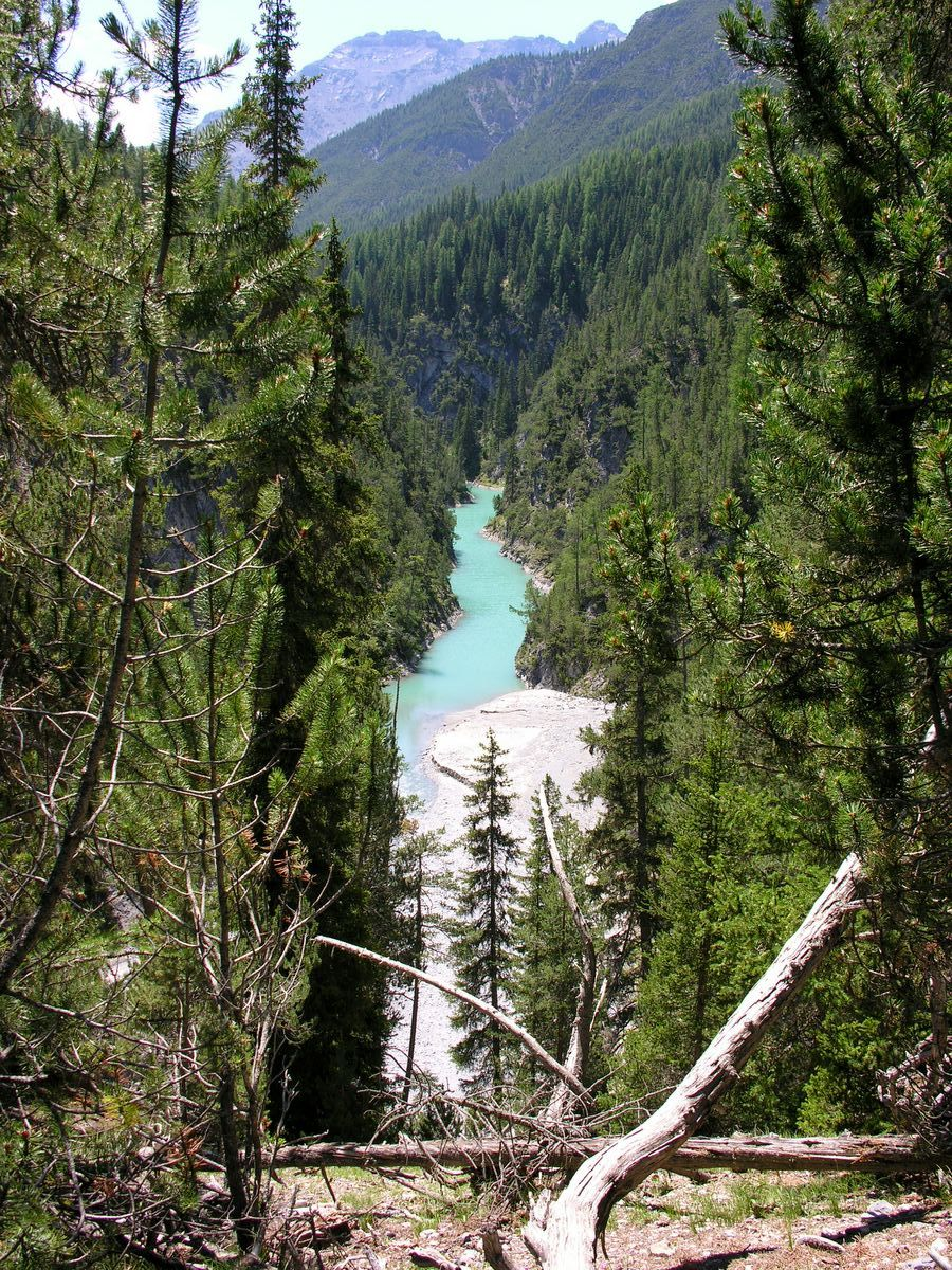 Swiss National Park. Pinus mugo in foreground, Picea abies behind.